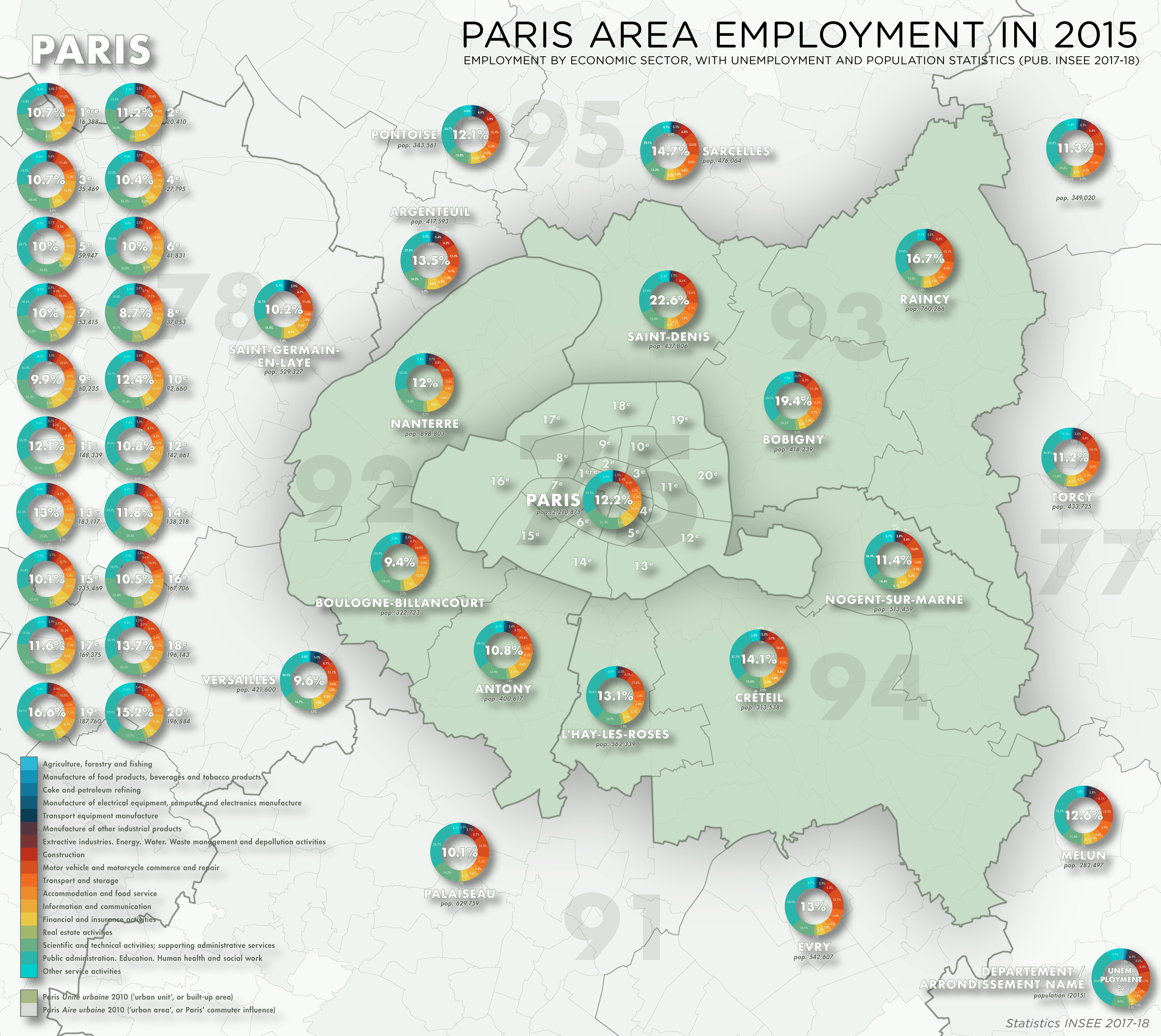 Employment by economic sector in the Paris area (pétite couronne), with population and unemployment figures (2015)